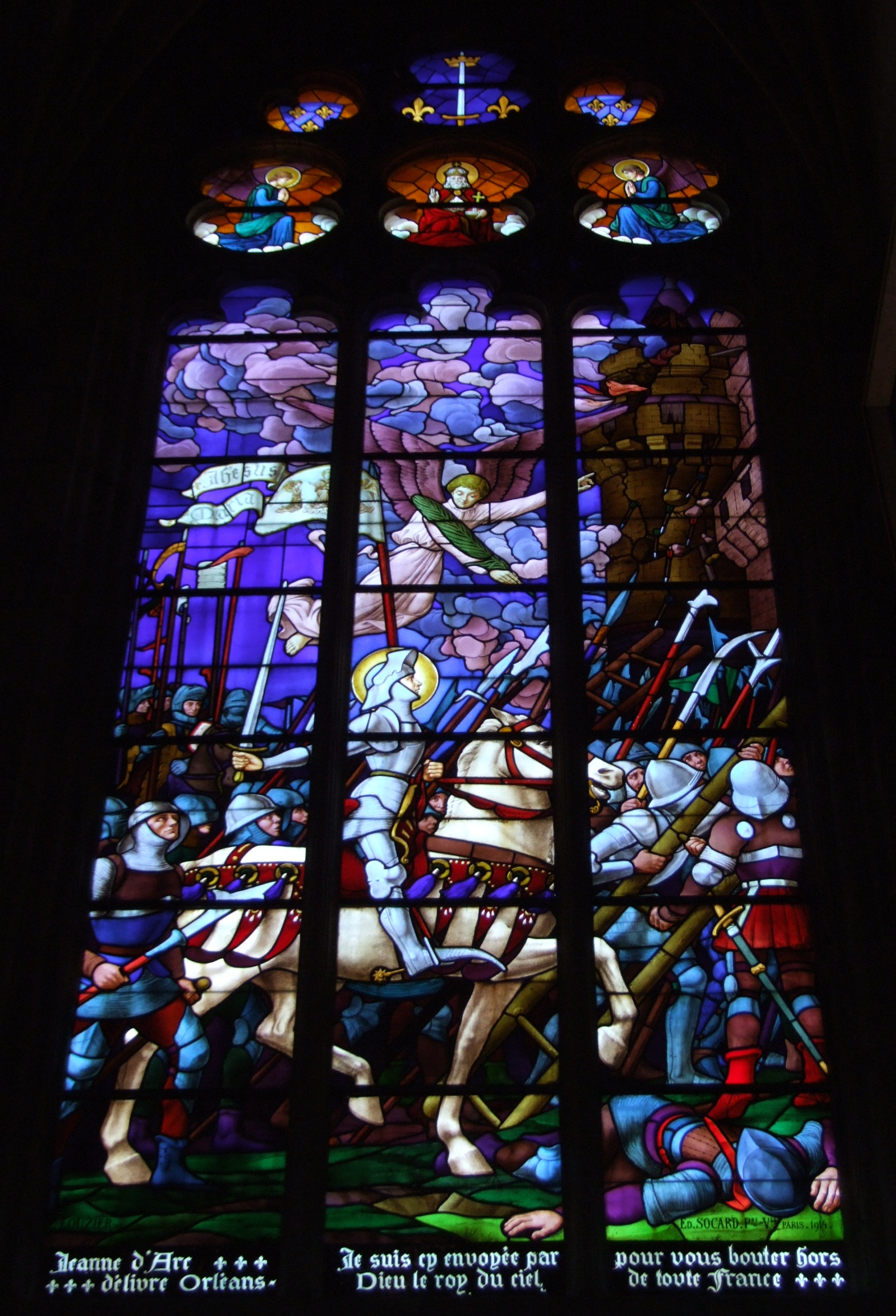 Saint-Etienne Cathedral, Auxerre, Burgundy, FRANCE